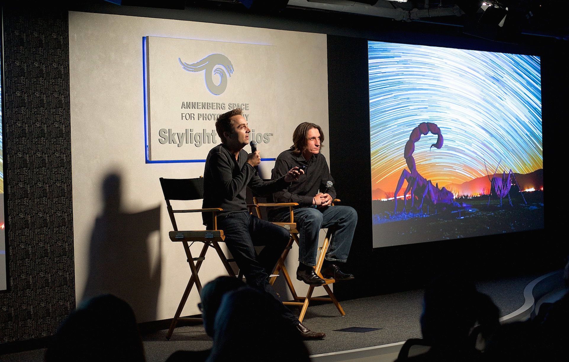 Gavin Heffernan (L) and Harun Mehmedinovic (R) speak at Annenberg Photo Space in Los Angeles on December 5th, 2015.